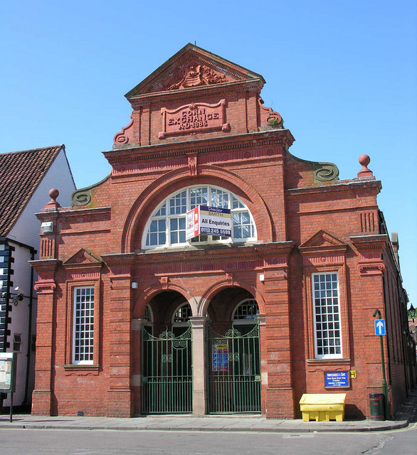 Corn Exchange, Beverley, East Riding of Yorkshire, England.The building dates from 1886 and commands a view over the southern end of the Saturday Market Place. For many years it served as the 'Beverley Playhouse' but now awaits some future use.